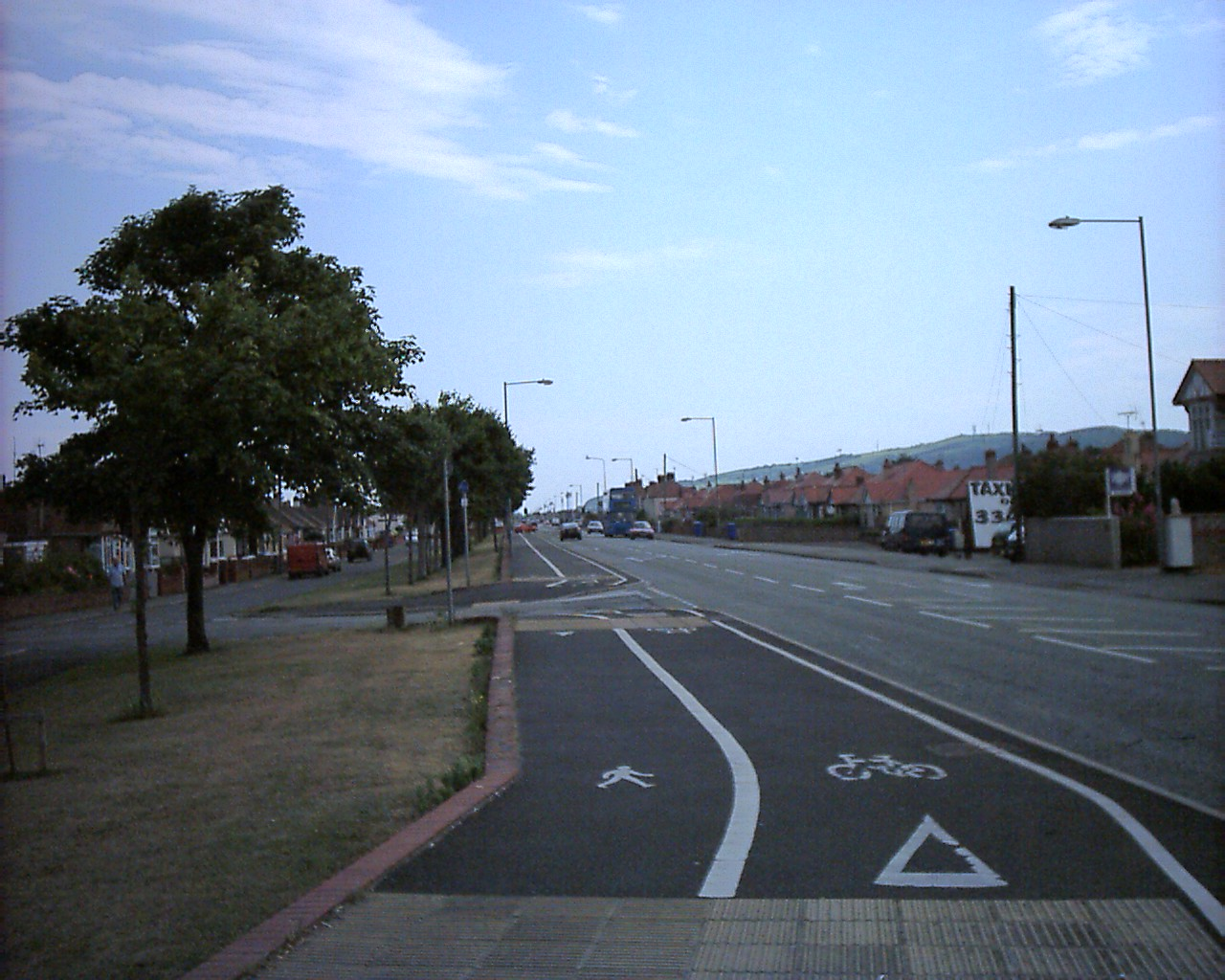 The A548 road in Rhyl, North Wales looking eastwards towards Prestatyn. The pavement has been painted into two halves to allow cyclists and pedestrians to share it. This avoids cycling directly on the busy A548 road itself.